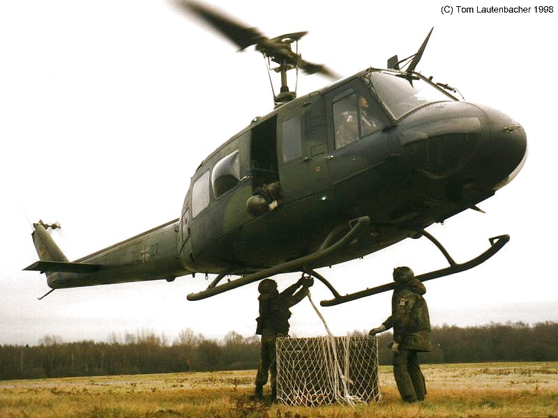 German paratroopers of the 31st Airborne Brigade of the Bundeswehr training the aerial loading of goods with a helicopter of the type Bell UH-1D near Varel